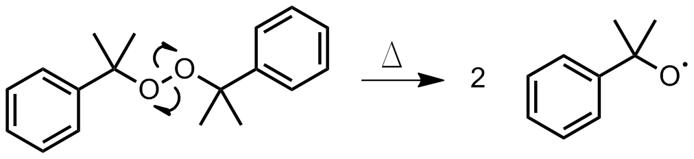 Thermal decomposition of dicymyl peroxide.